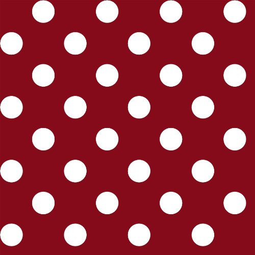 White polka dots on red background